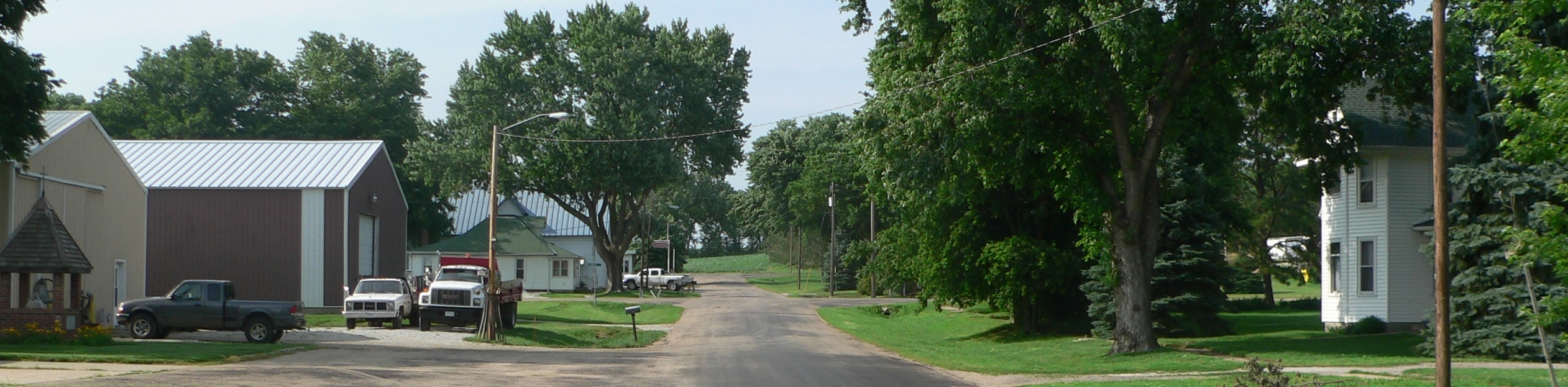 Downtown Washington, Nebraska: Dorchester Street, looking north from about Greene Street.